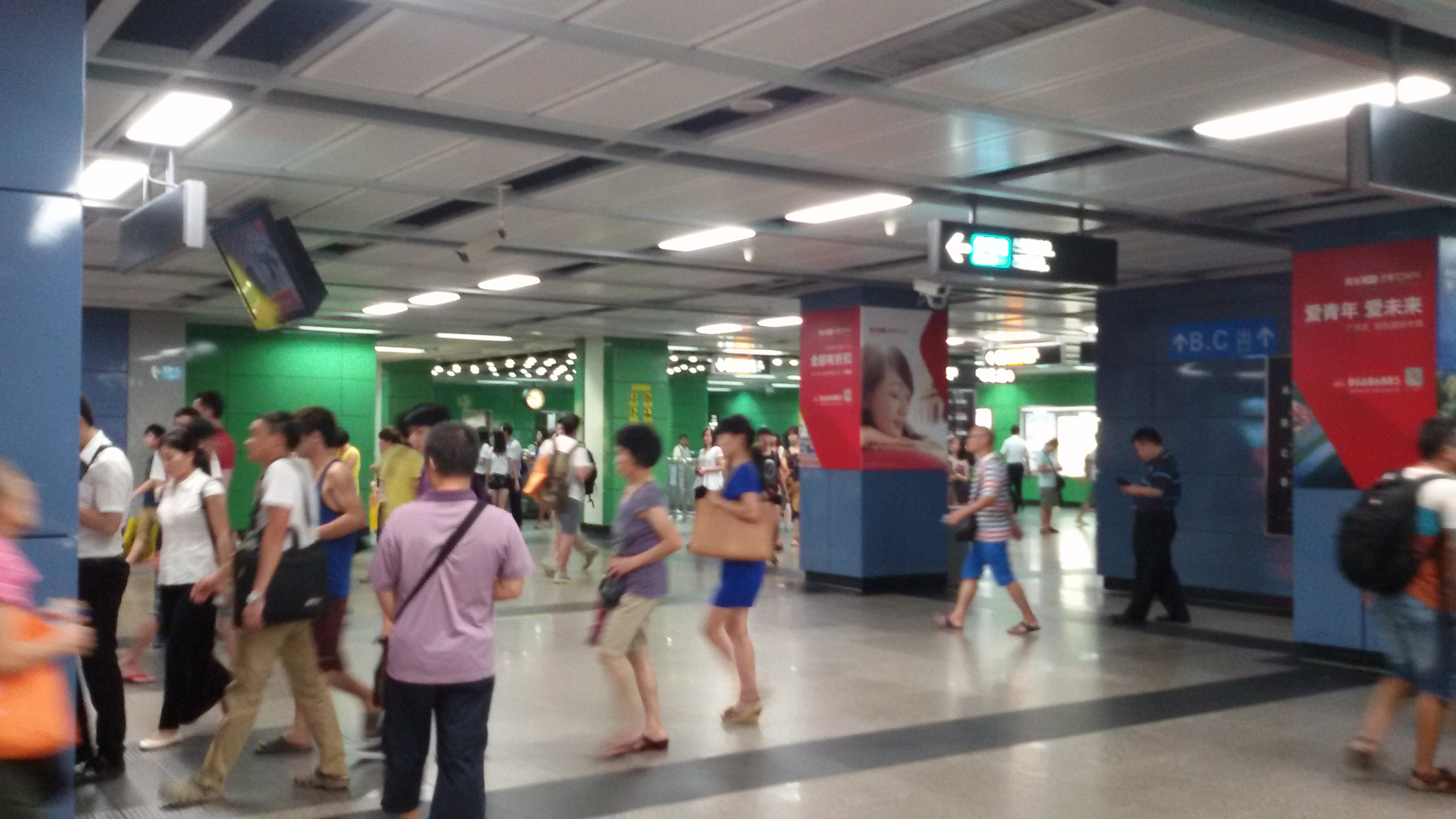 Station Concourse for Kecun Station in Guangzhou Metro.